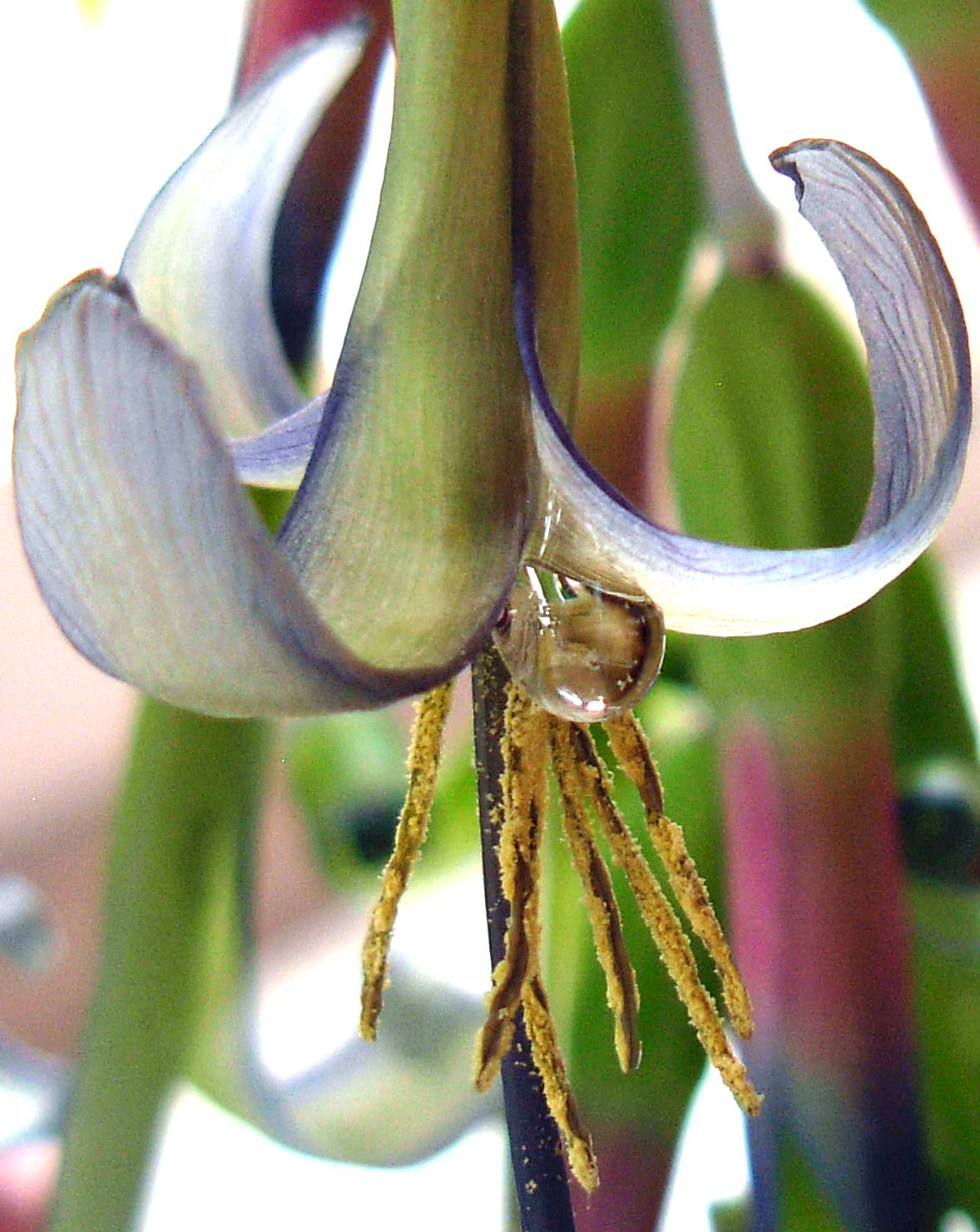 Close-up photo depicting drop of nectar hanging between petals and stamens.